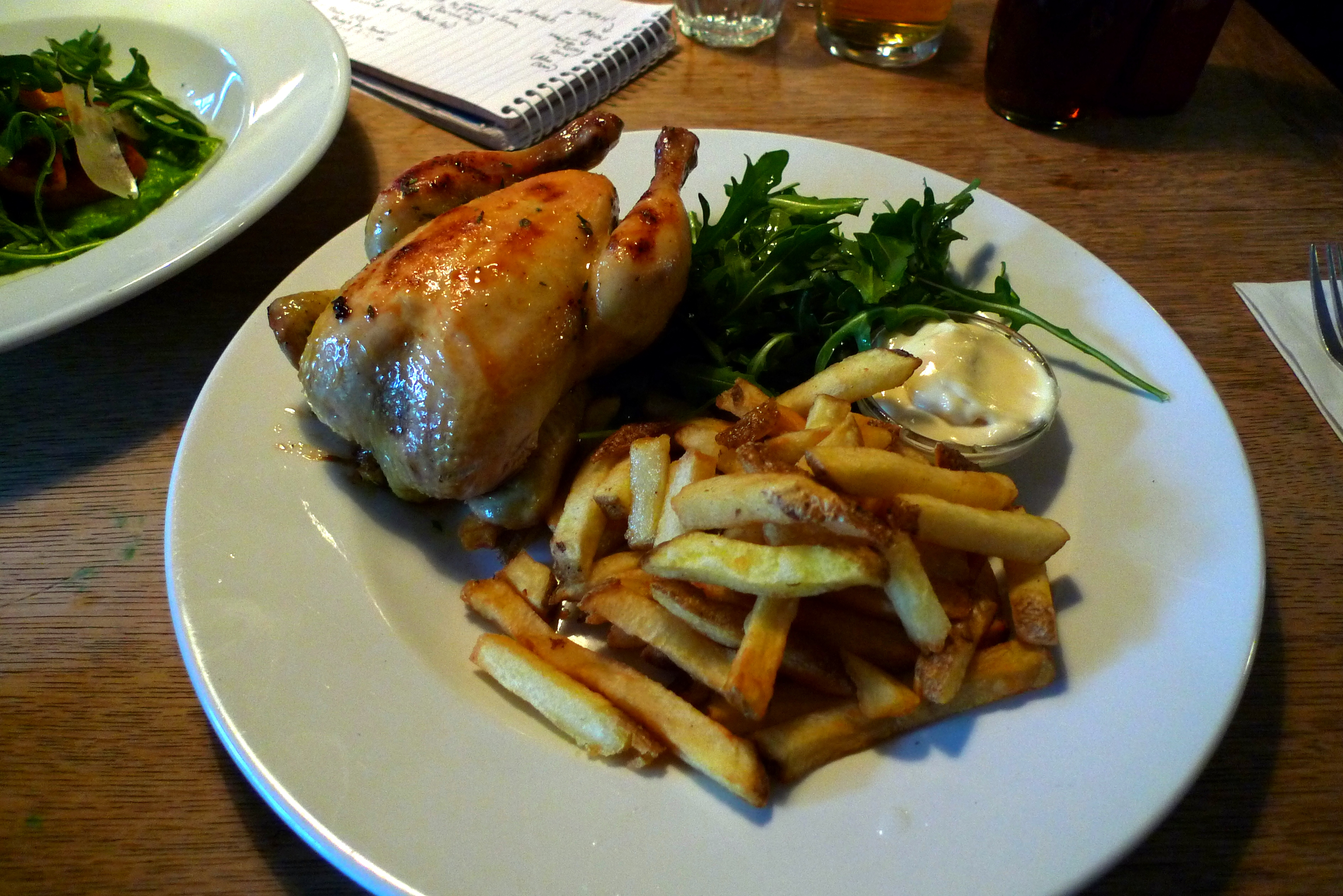 The roast poussin with honey, thyme and lemon glaze, hand-cut chips and garlic mayonnaise. Very nice indeed. At The Red Lion and Sun, North Road.